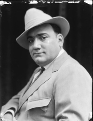 Caruso